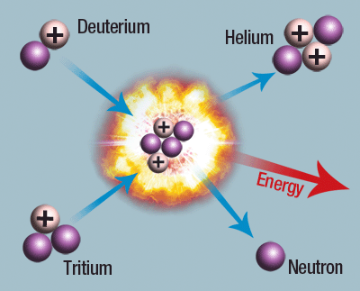 nuclearfusion.jpg